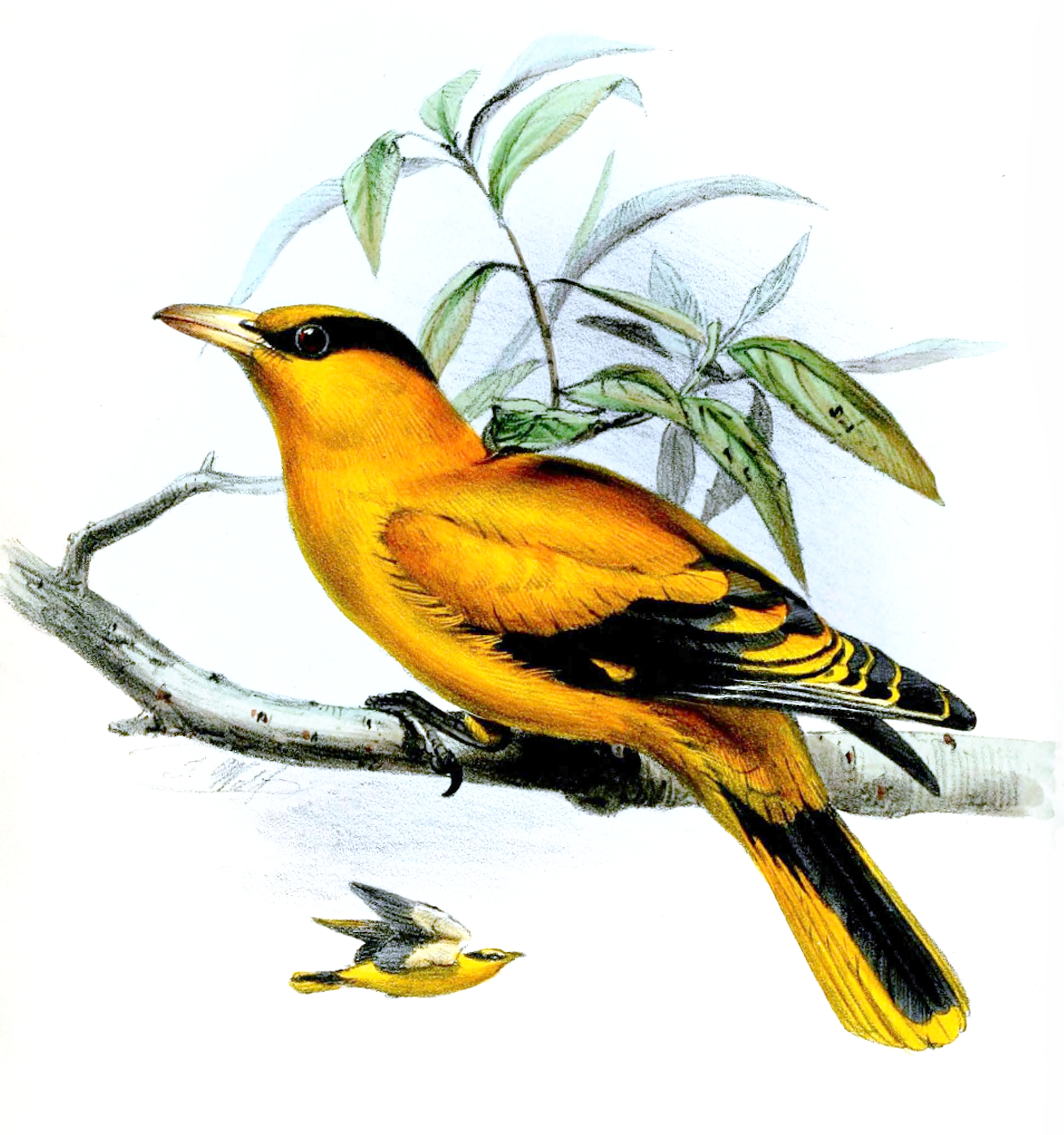 Oriolus chinensis broderipii